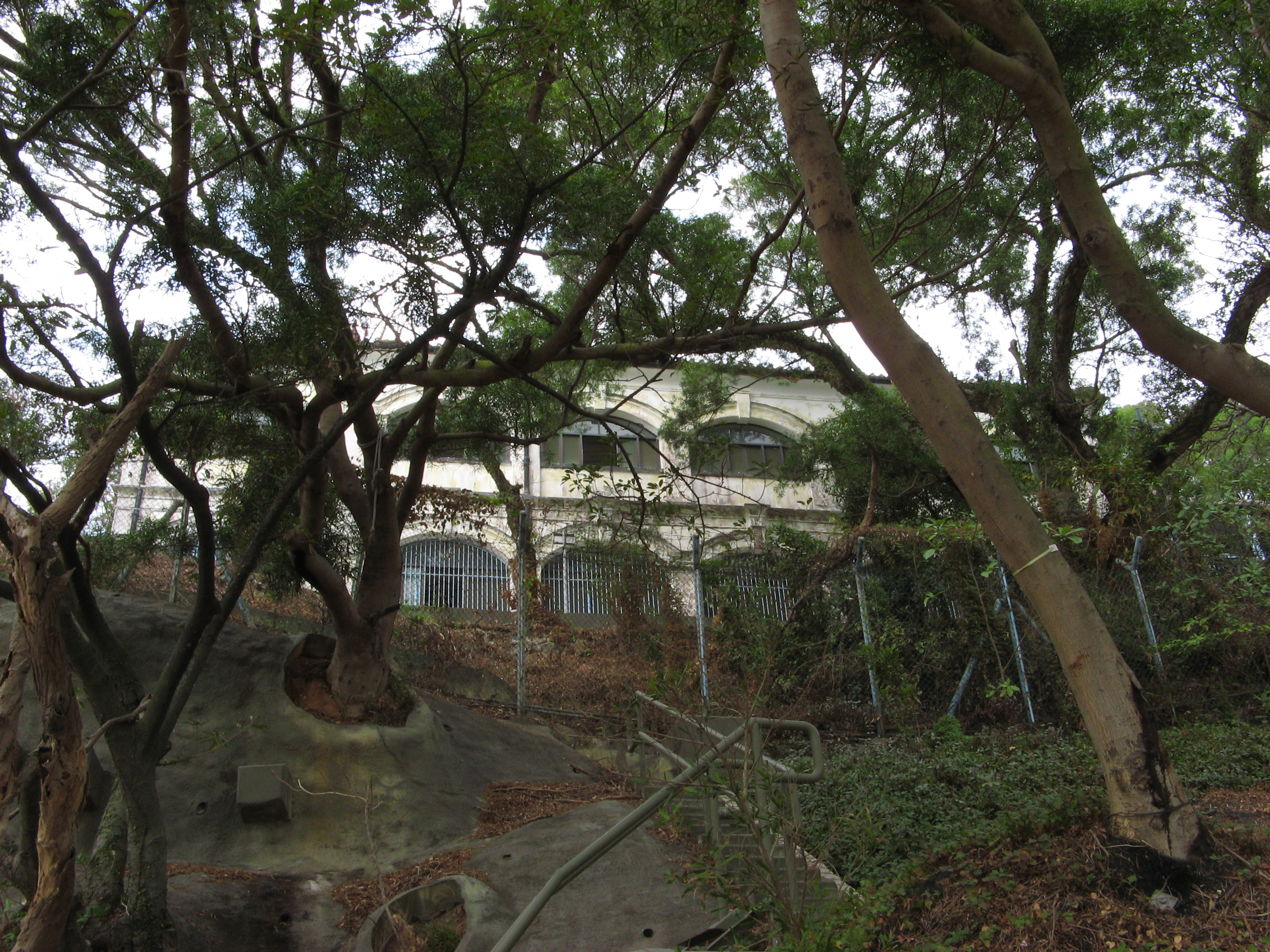 Old Tai O Police Station prior to its conversion to Tai O Heritage Hotel. (Lantau Island, Hong Kong)